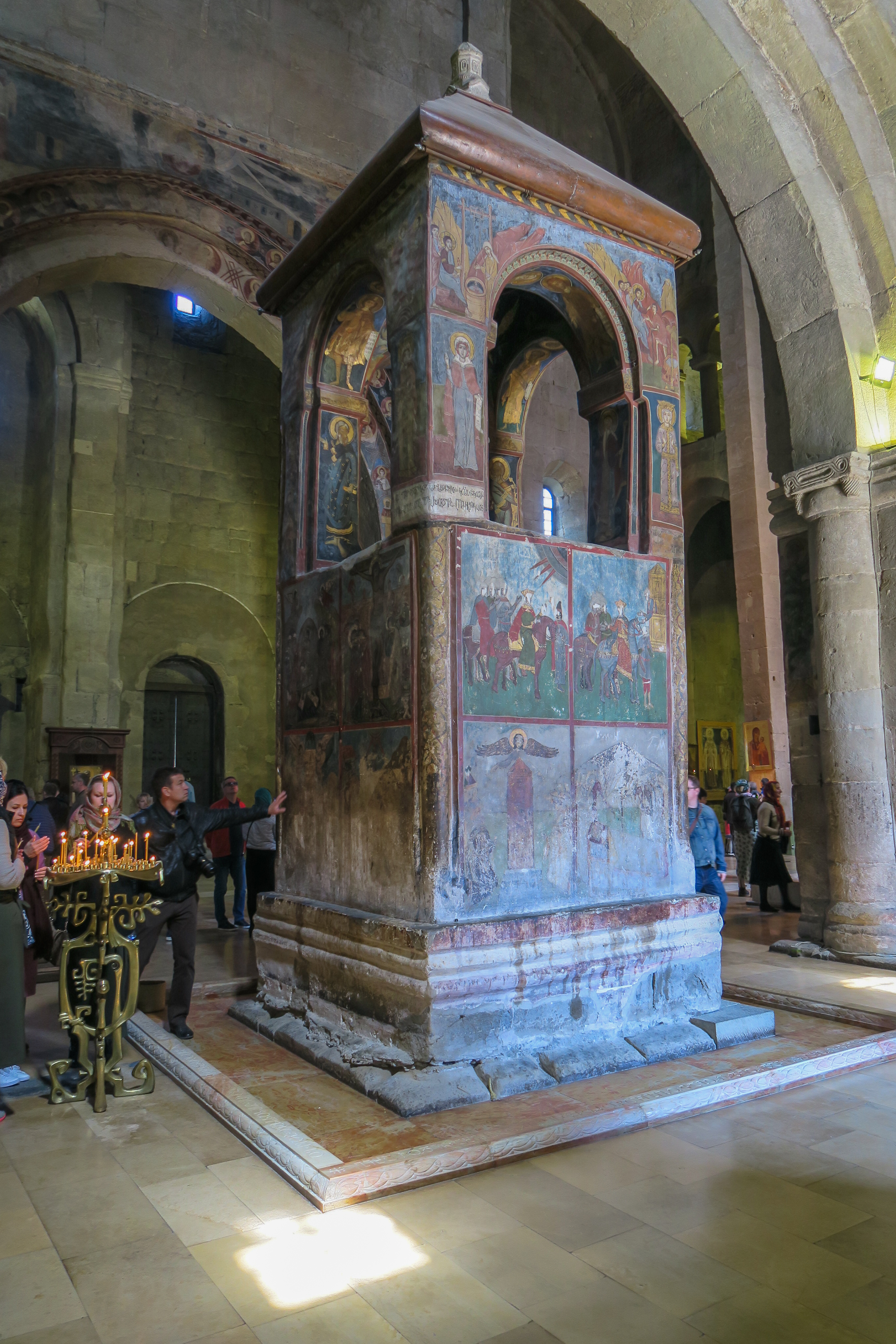 "Pillar of life giving miracles" - monument under which the robe of Jesus is said to have been buried, in Svetitskhoveli cathedral (Georgia (country).